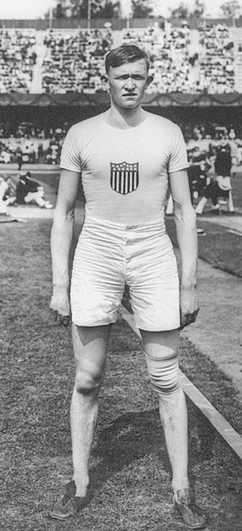 Albert Gutterson of the USA, a Long Jump competitor, standing in the Olympic Stadium during the 1912 Olympic Games in Stockholm, Sweden. Gutterson won the gold medal in this event.